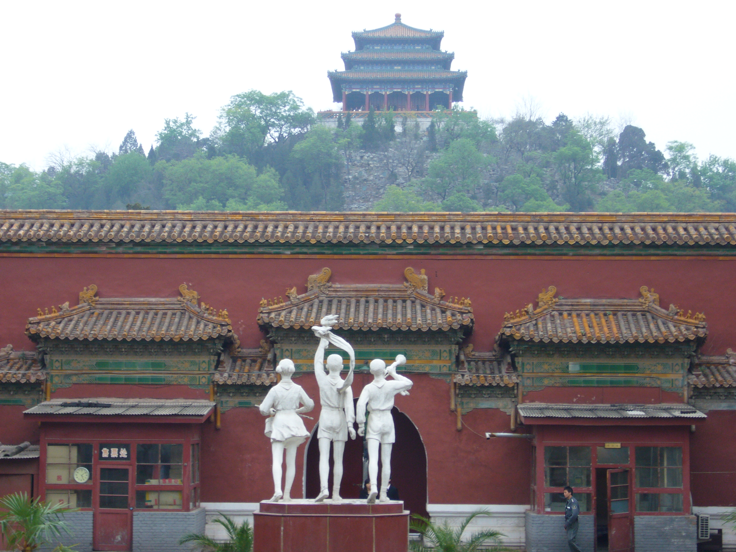 Mainbuilding of Beijing Children's Palace